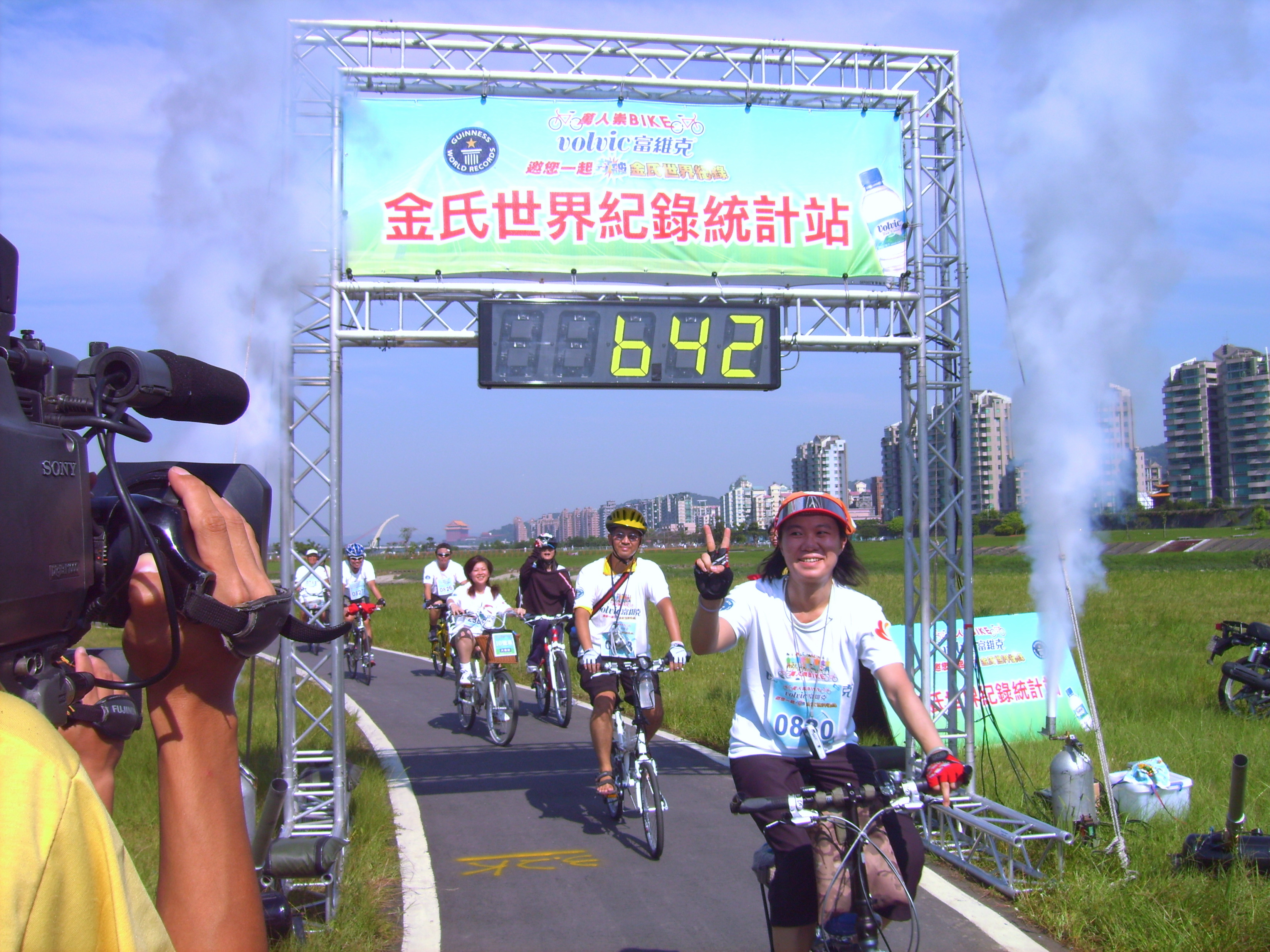 "2007 Ten Thousand People for BIKE" Guinness World Record Challenge surely broke old record when the 642nd riders passes the recording gate.